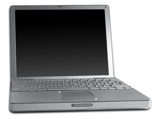 A PowerBook G4 12" on white background.